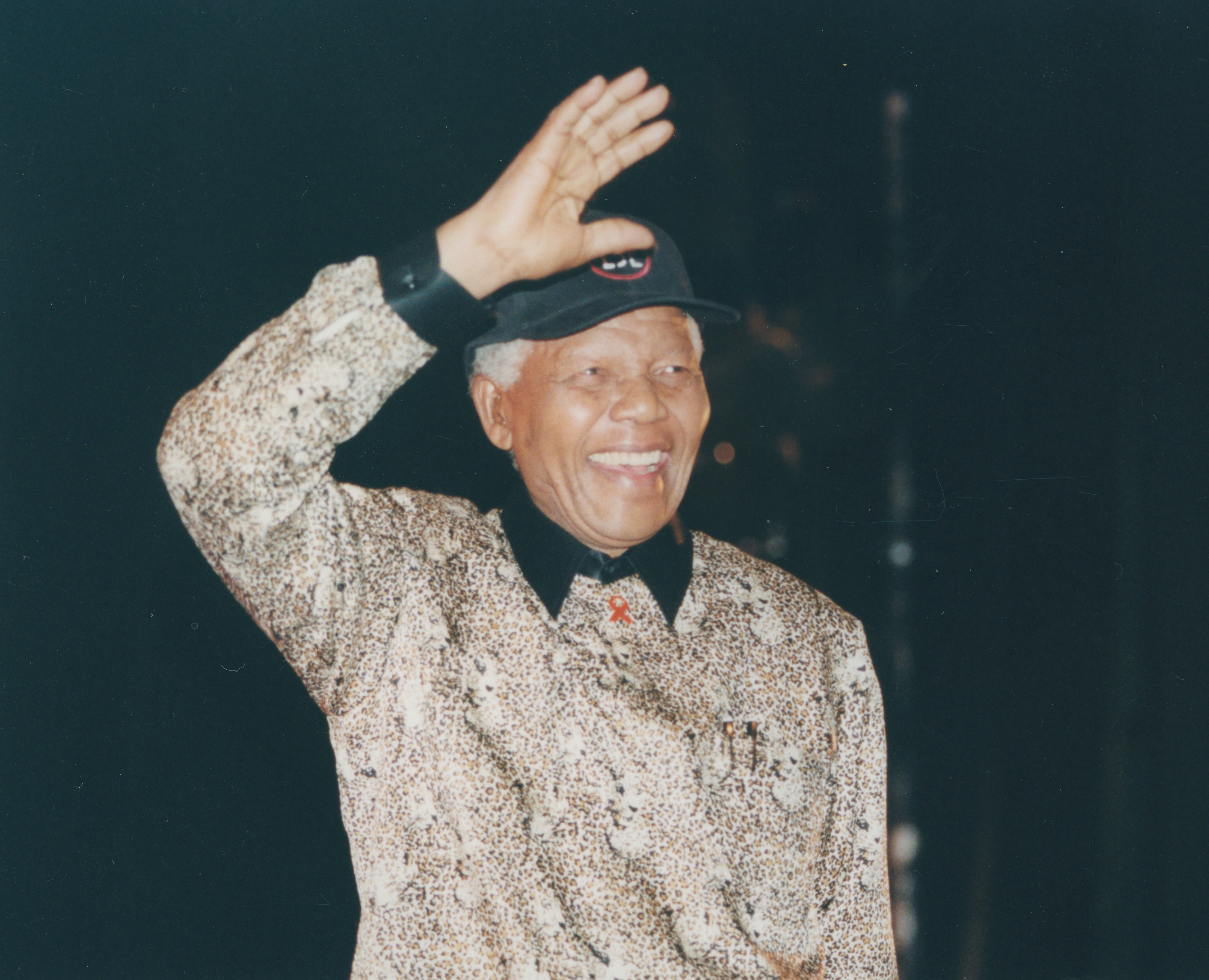 6th April 2000 Visit of Nelson Mandela to give a lecture at LSE on 'Africa and Its Position in the World.' Held at the Peacock Theatre. IMAGELIBRARY/817 Persistent URL